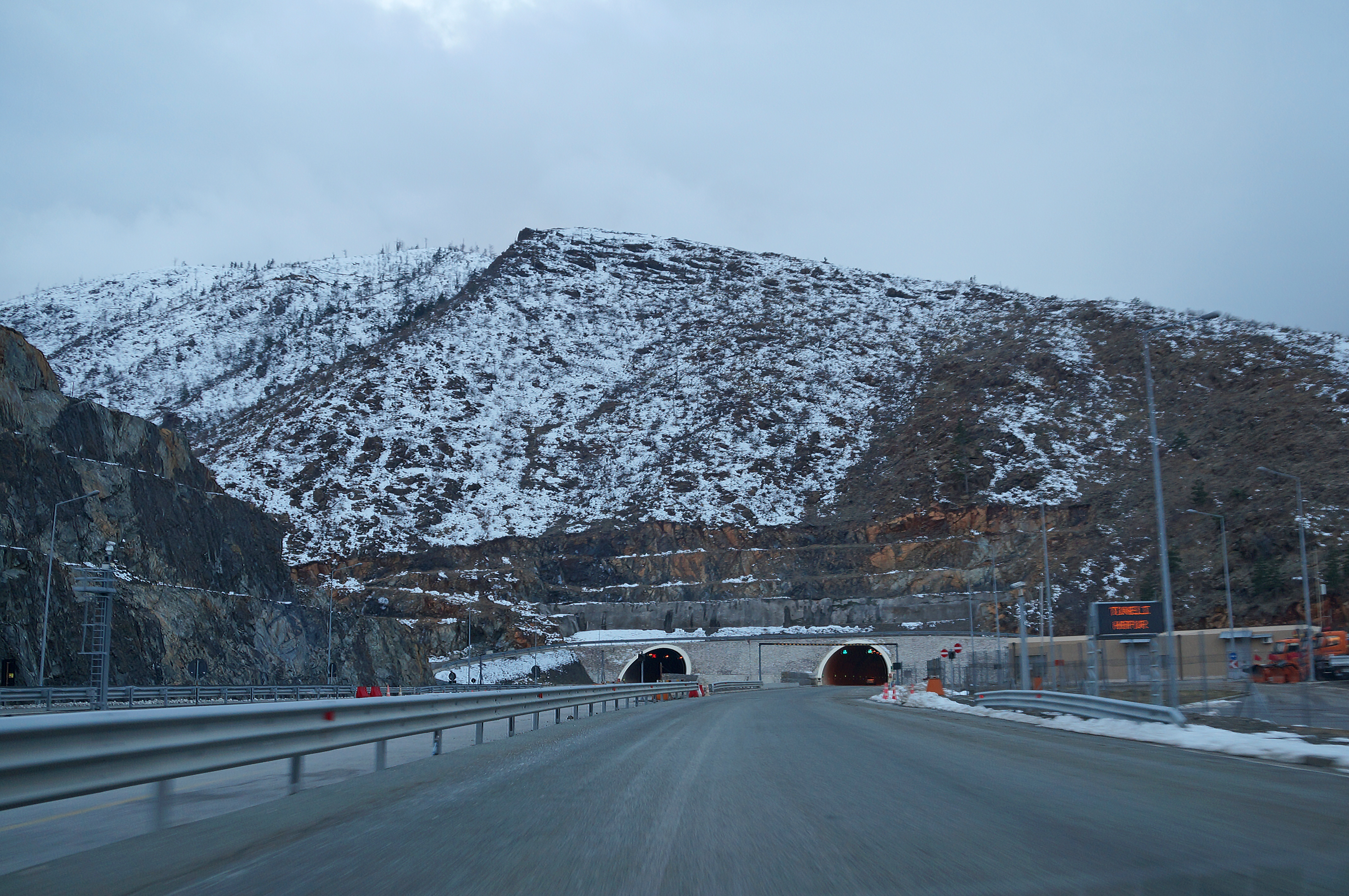 Kalimash tunnel in winter